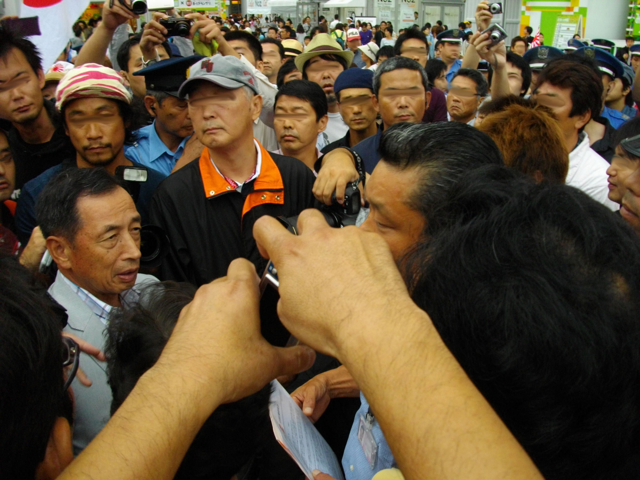 Anti-Fuji Television rally on 21 August 2011 at Odaiba